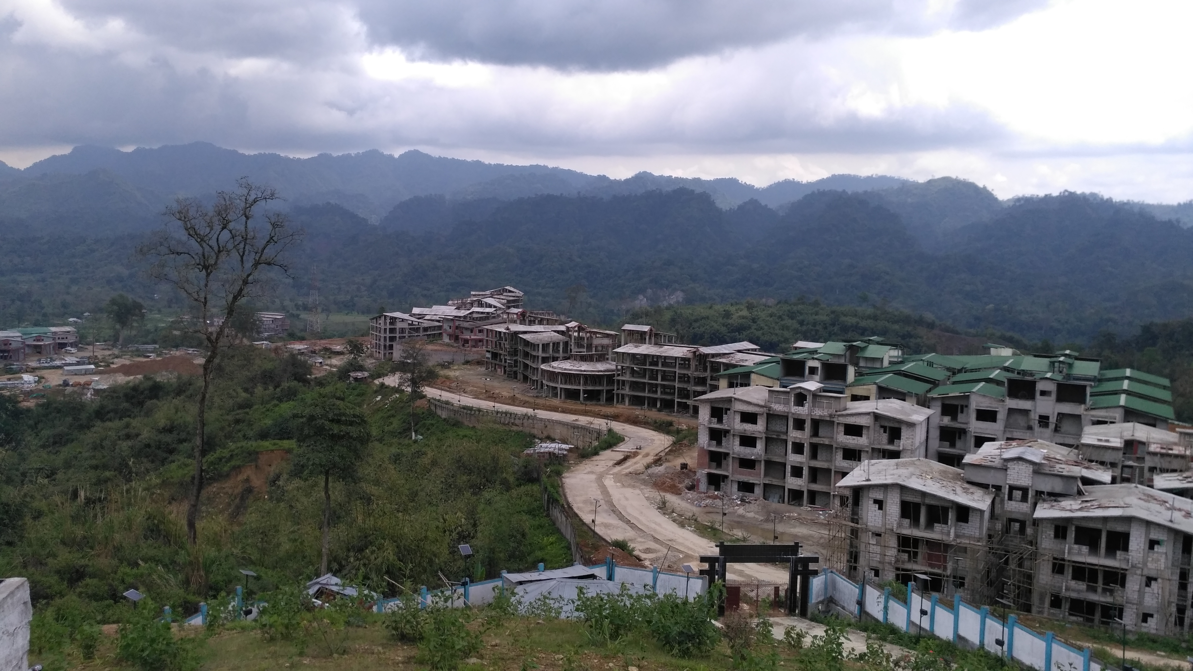 NIT ArunachaL Pradesh Permanent Campus